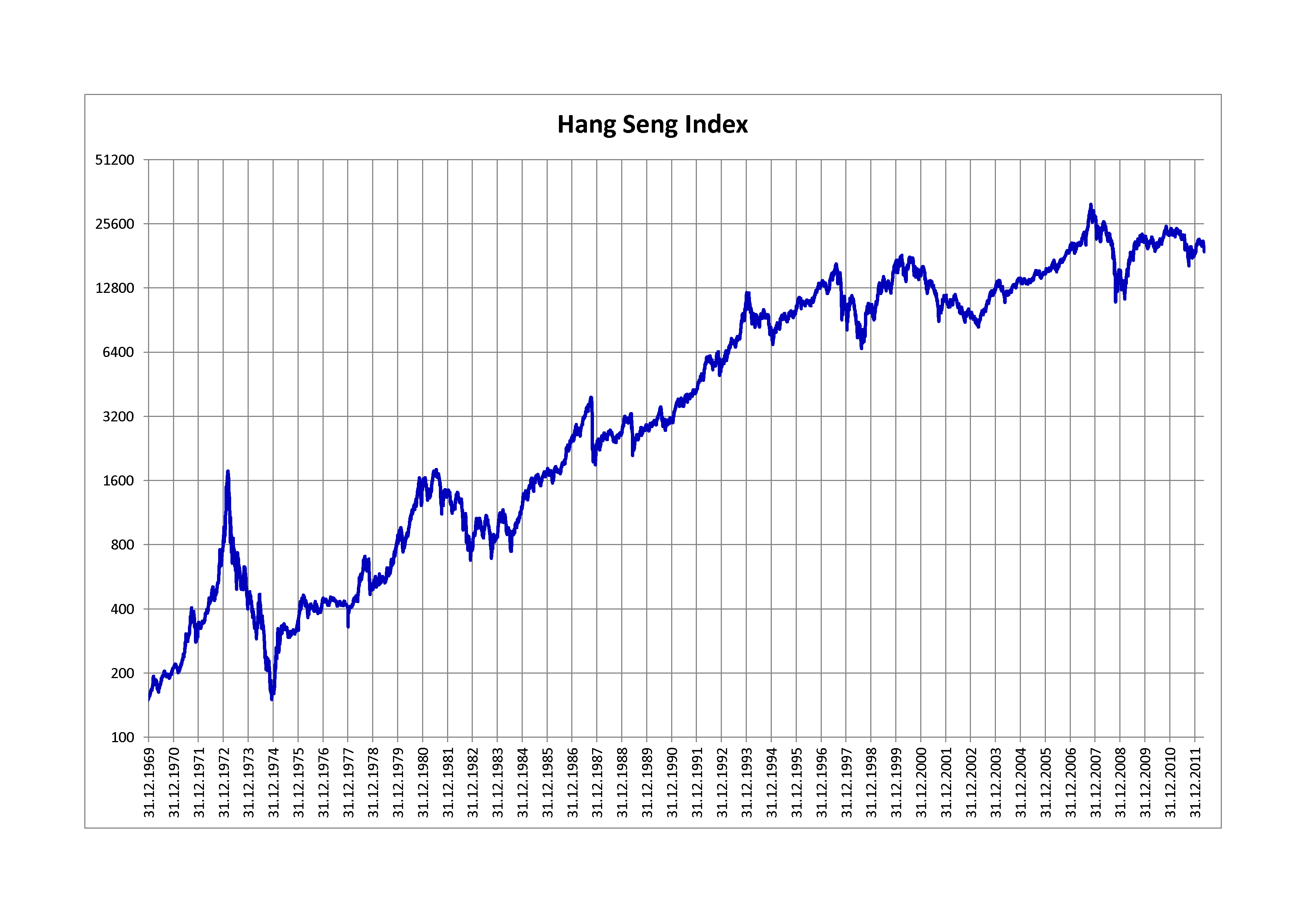 Hang Seng Index from December 1969 to May 2012 (daily closings).